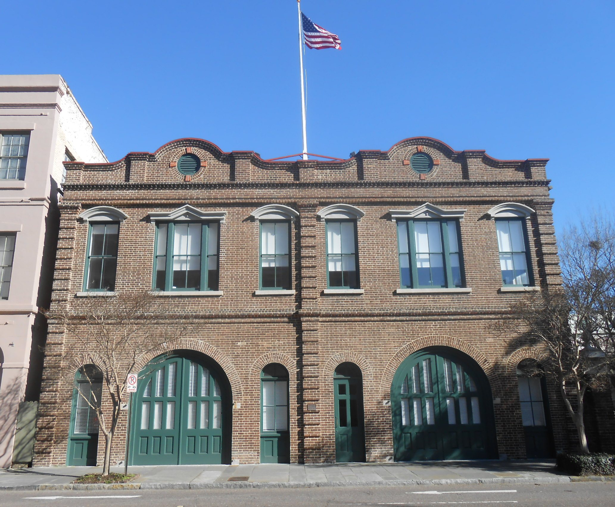 116 Meeting Street, Charleston, South Carolina